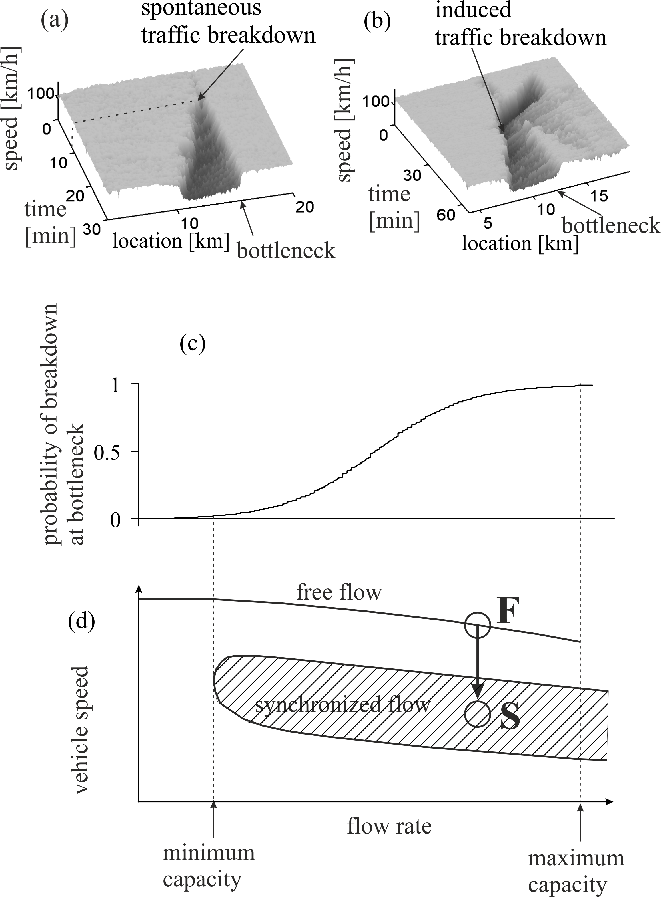 Explanations of the fundamental empirical features of traffic breakdown